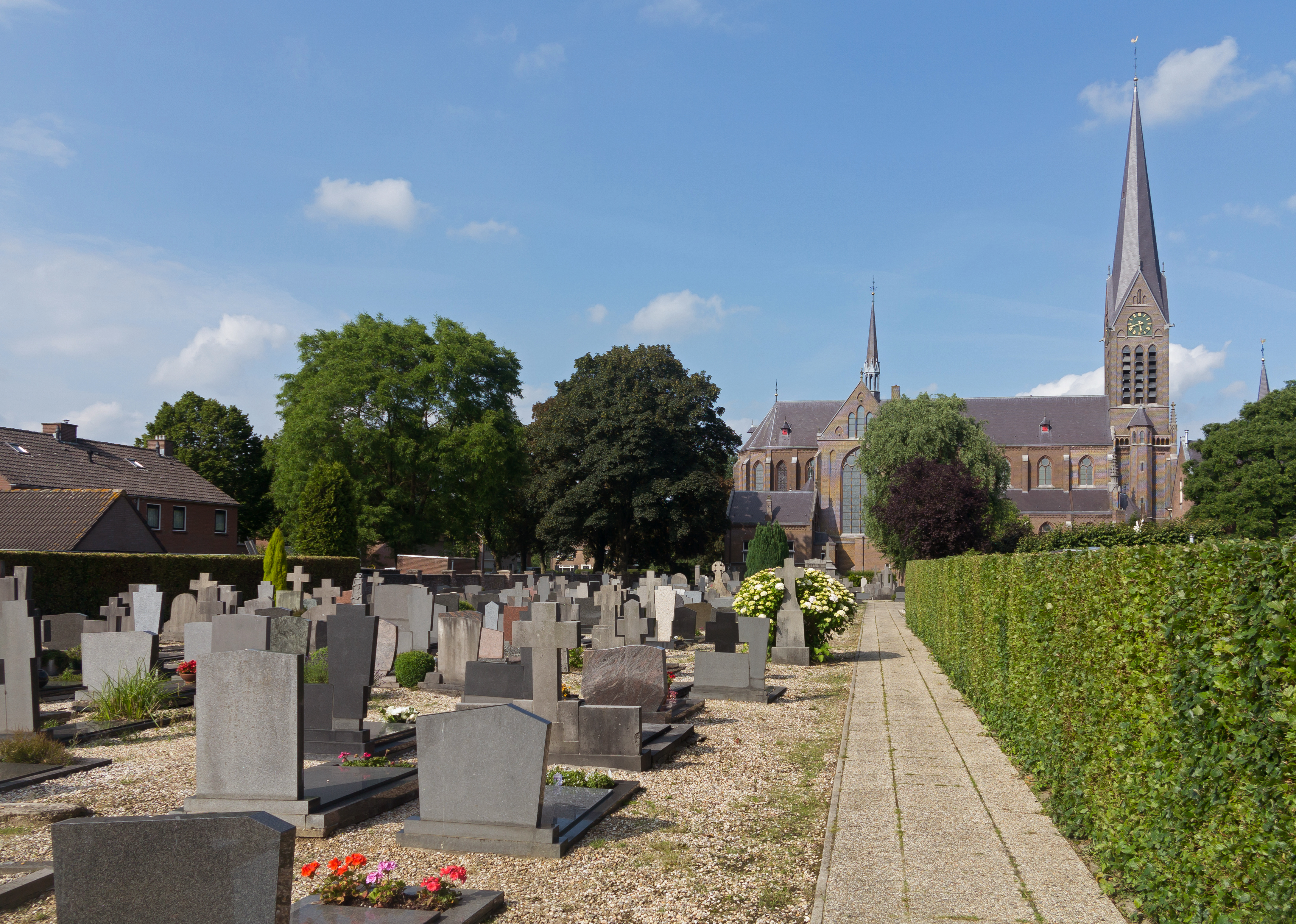 Lith, church: de Sint Lambertuskerk